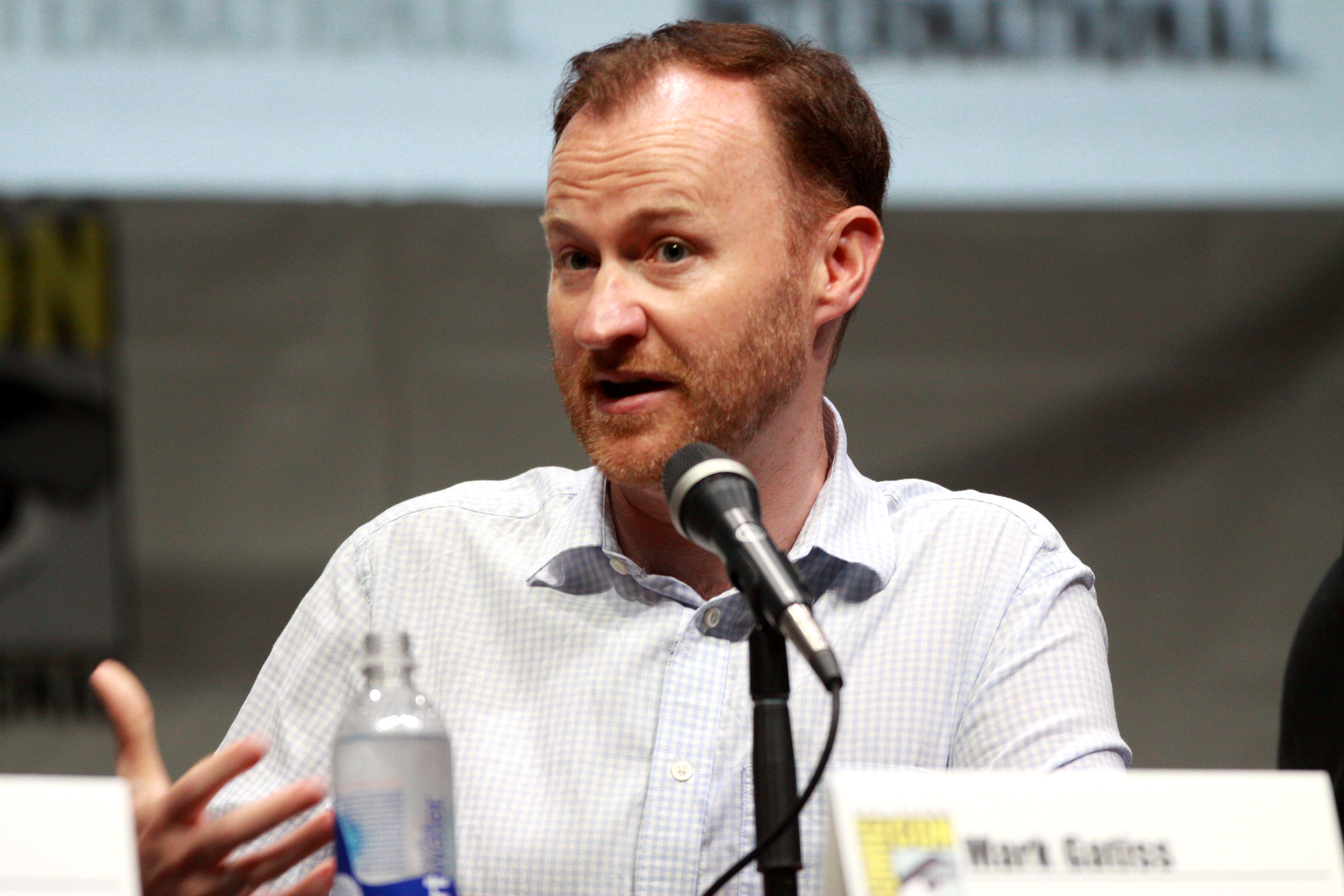 Mark Gatiss speaking at the 2013 San Diego Comic Con International, for "Doctor Who", at the San Diego Convention Center in San Diego, California.